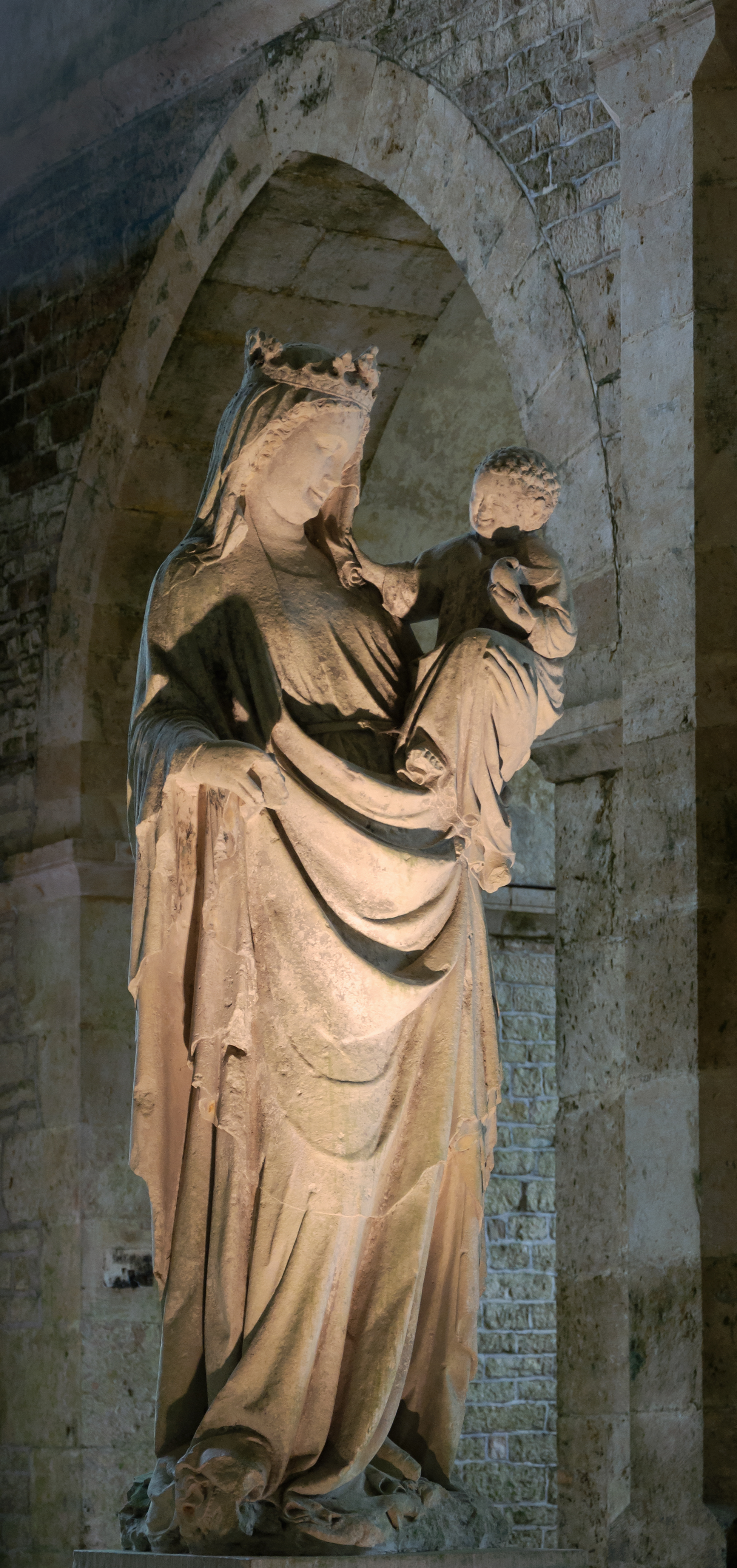 Virgin and Child, 13th-century statue in the church of the Abbey of Fontenay, Marmagne, Côte-d'Or department, Burgundy, France.